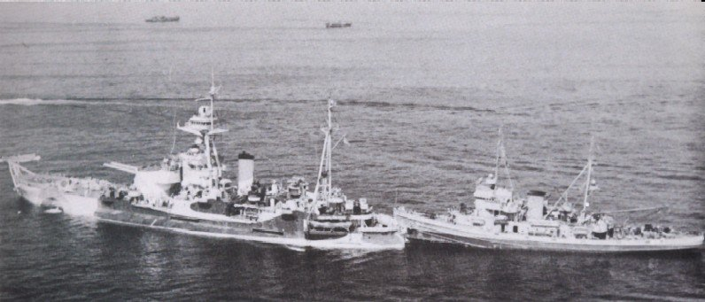 USS Moreno (AT-87) rendering assistance to HMS Abercrombie, 10 September 1943, in the Gulf of Salerno. On the afternoon of 9 September, the Monitor HMS Abercrombie drifted into an unswept minefield while awaiting calls for bombardment support in the Gulf of Salerno. She is seen here the following day with Moreno.